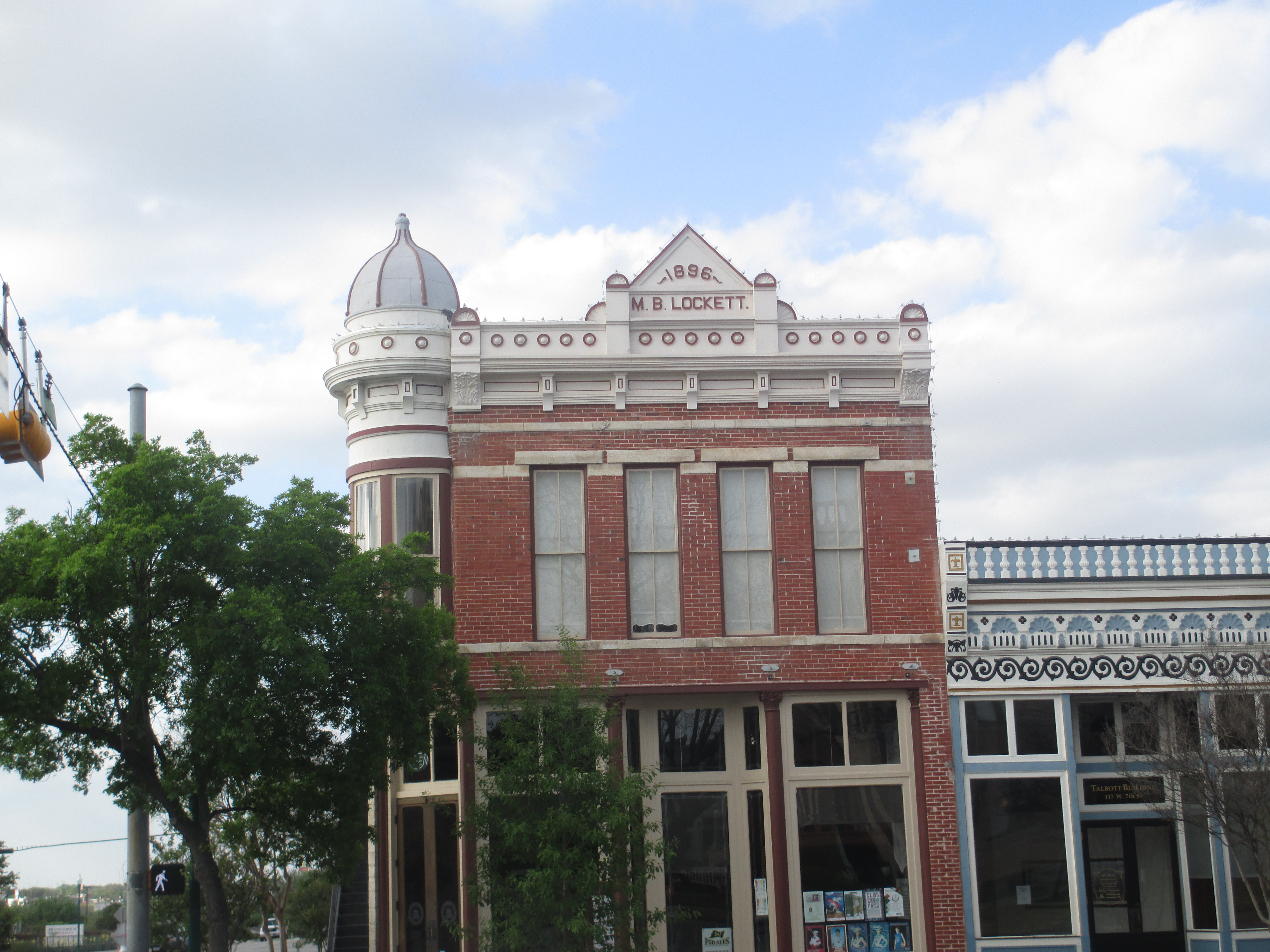 I took photo of unusually designed M.B. Lockett Building in dowtown Georgetown, TX, with Canon camera, April 7, 2013. Billy Hathorn (talk) 11:33, 10 April 2013 (UTC)